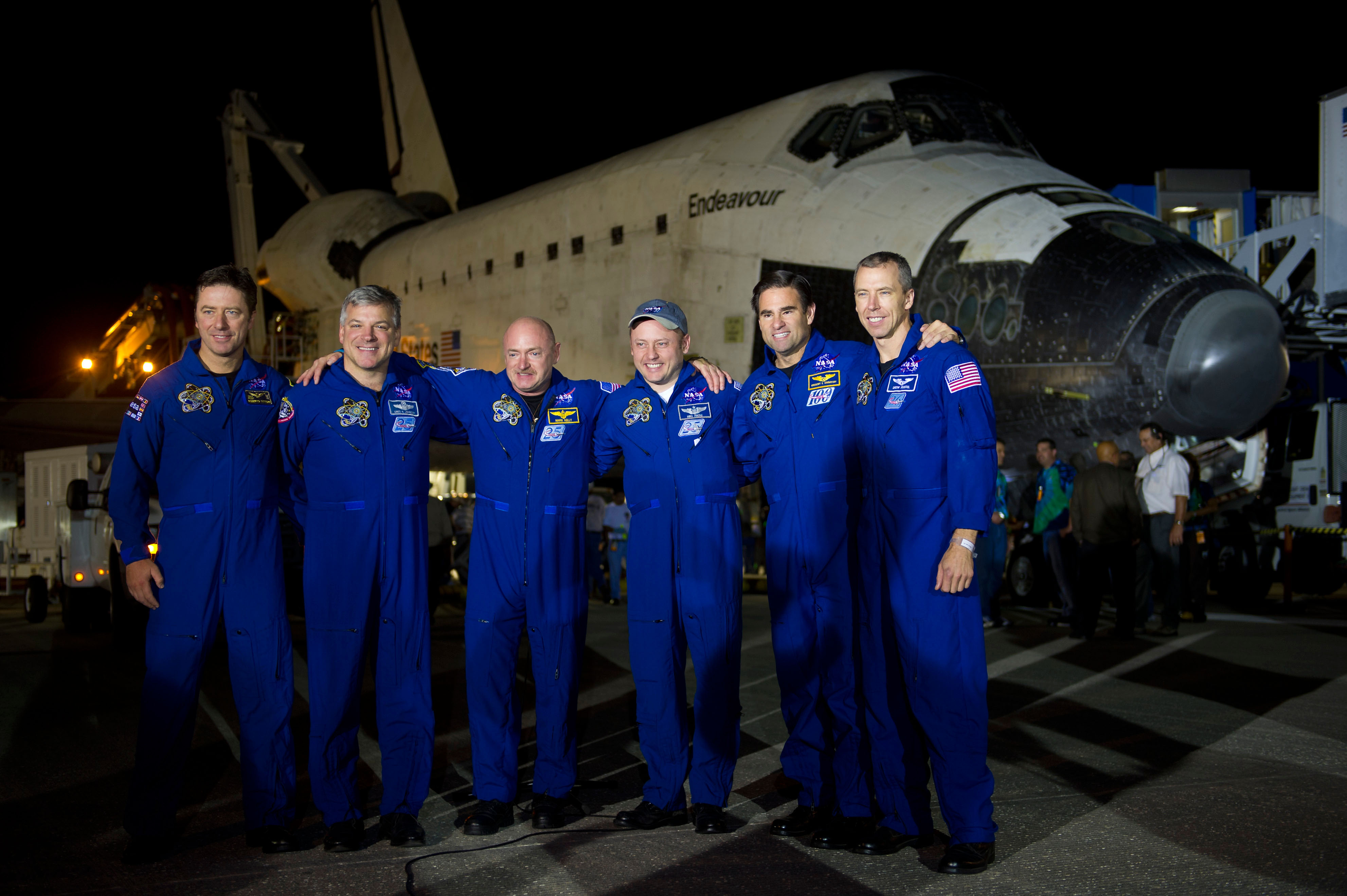 The crew of STS-134 pose for a picture on the runway at Kennedy Space Center in Florida on June 1, 2011 after Space Shuttle Endeavour's final landing. The STS-134 astronauts from left, European Space Agency's Roberto Vittori, mission specialist; NASA astronauts Greg H. Johnson, pilot; Mark Kelly, commander; Michael Fincke, Greg Chamitoff, and Andrew Feustel, all mission specialists, pose for a group photograph shortly after landing onboard the space shuttle Endeavour at the Shuttle Landing Facility (SLF) at Kennedy Space Center, June 1, 2011, in Cape Canaveral, Fla. Endeavour, completing a 16-day mission to outfit the International Space Station, spent 299 days in space and traveled more than 122.8 million miles during its 25 flights. It launched on its first mission on May 7, 1992.